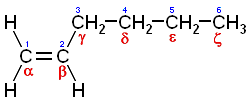 Structural formula of the chemical compound 1-Hexene. Created especially for use in the article "1-Hexene" in Wikimedia.